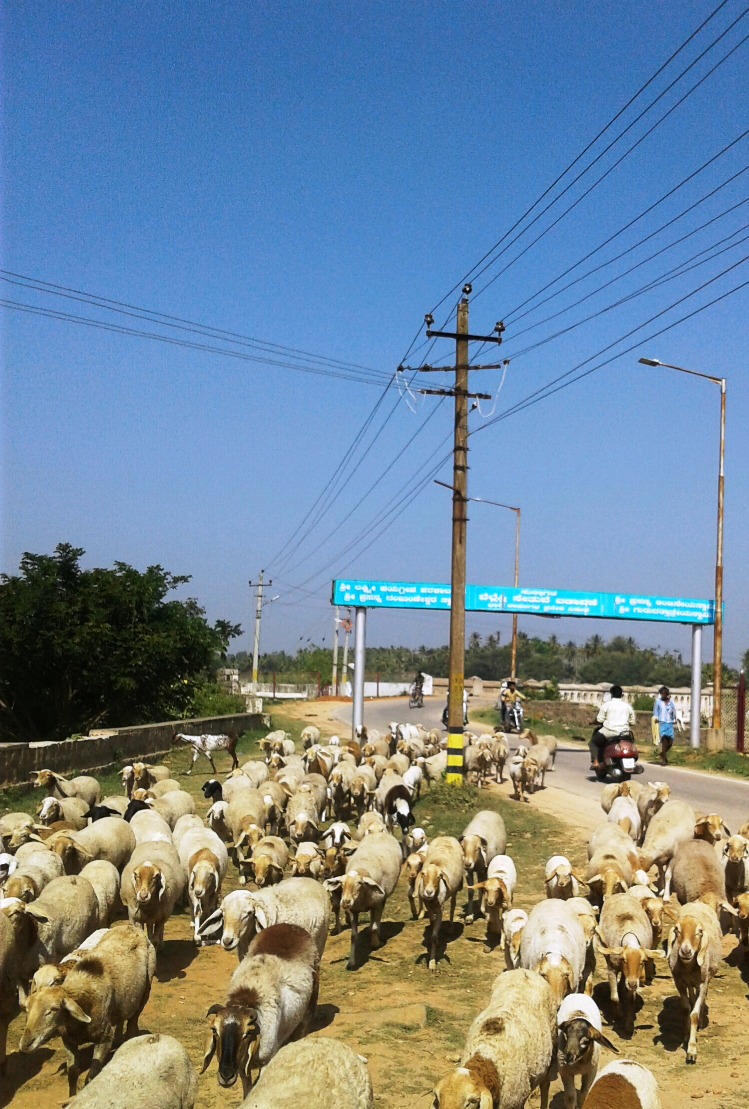 Srirangapatna, Mandya district, Karnataka state, India.